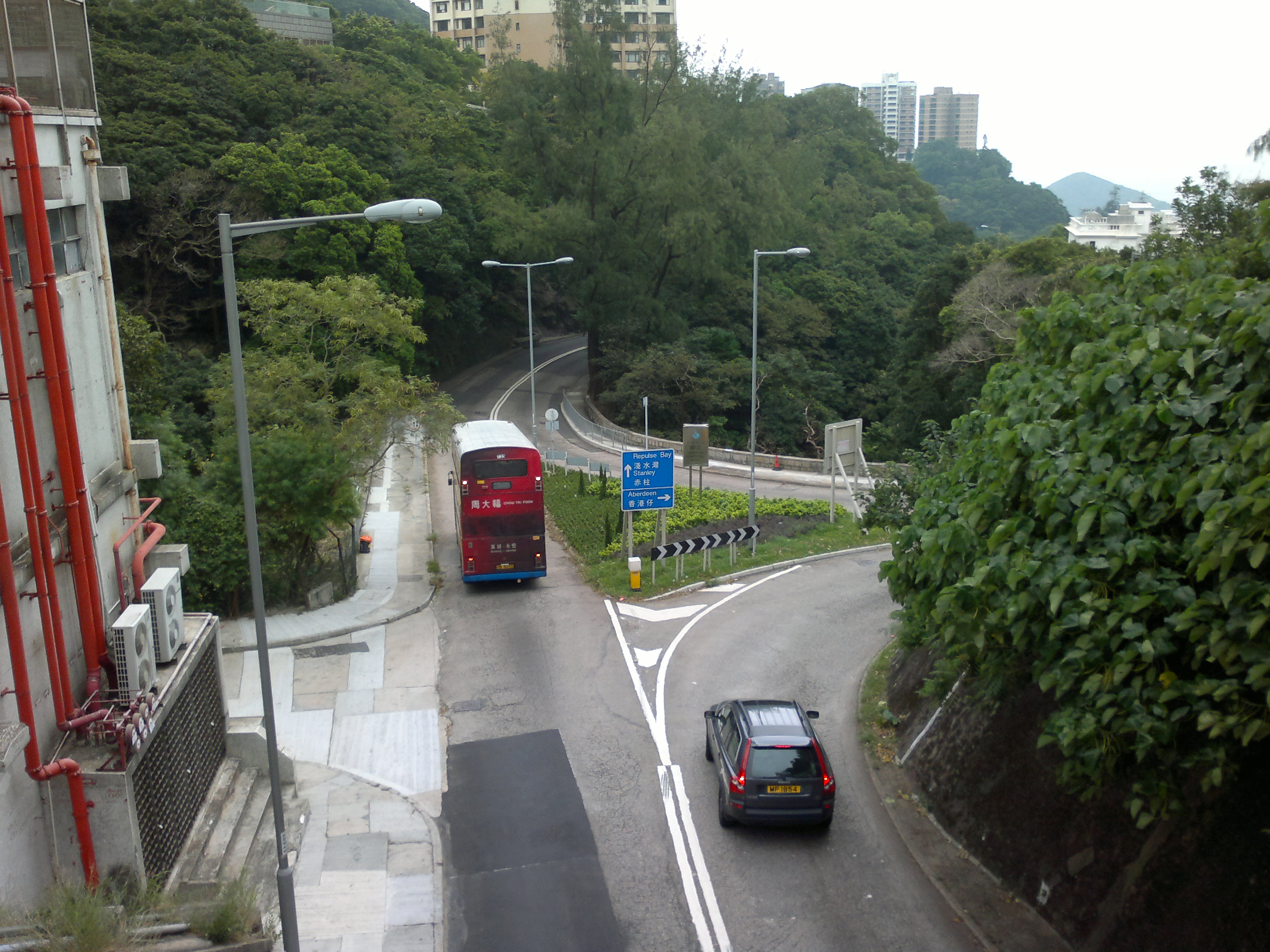 Wong Nai Chung Gap Road near Repulse Bay Road